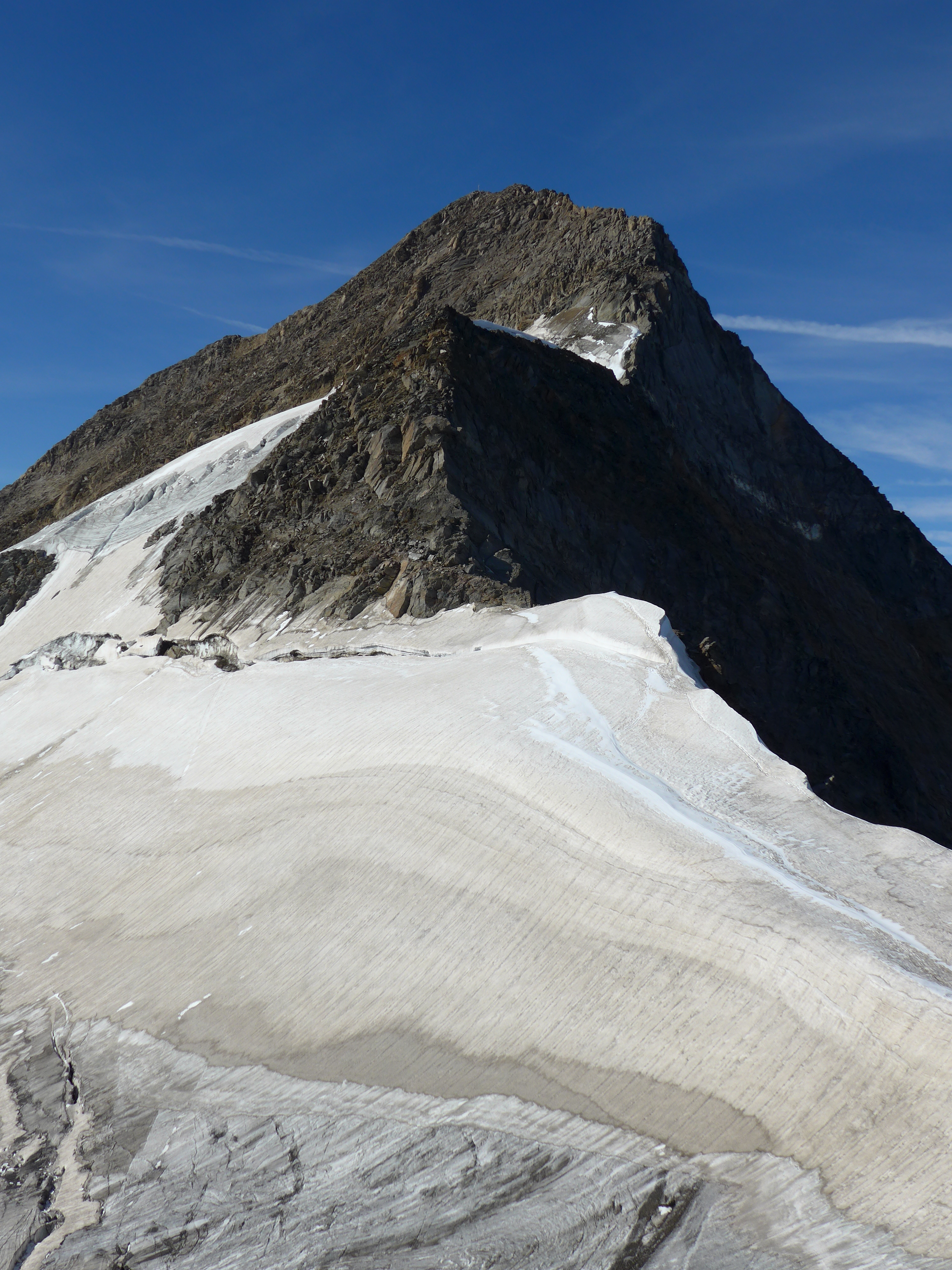 Rötspitze north east ridge